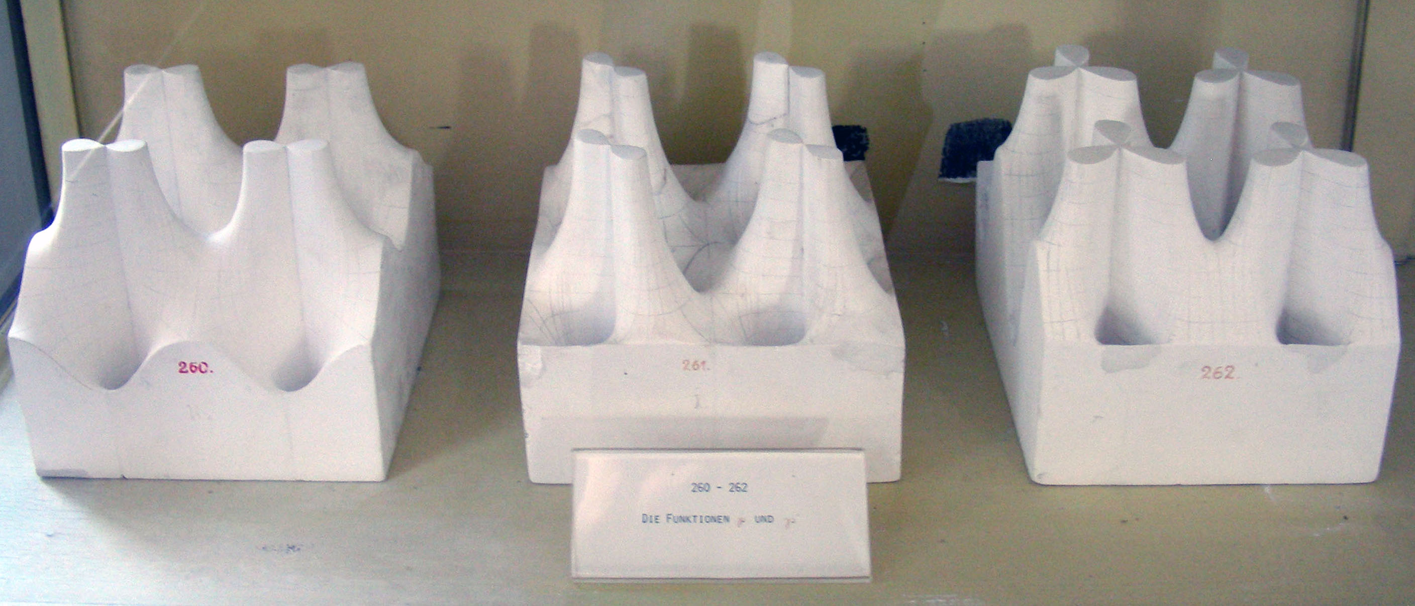 Model in the collection of mathematical models and instruments, Georg-August-Universität Göttingen Göttingen. see also for more information on the models